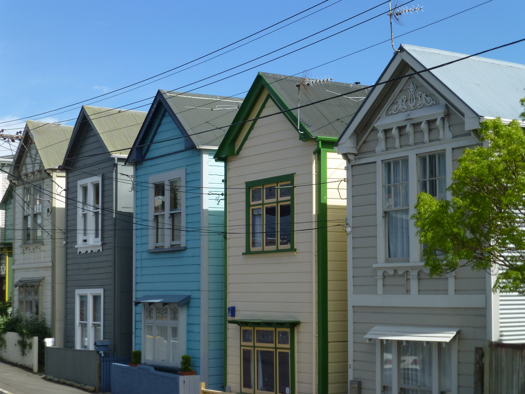 Mt. Victoria weatherboard cottages in Wellington